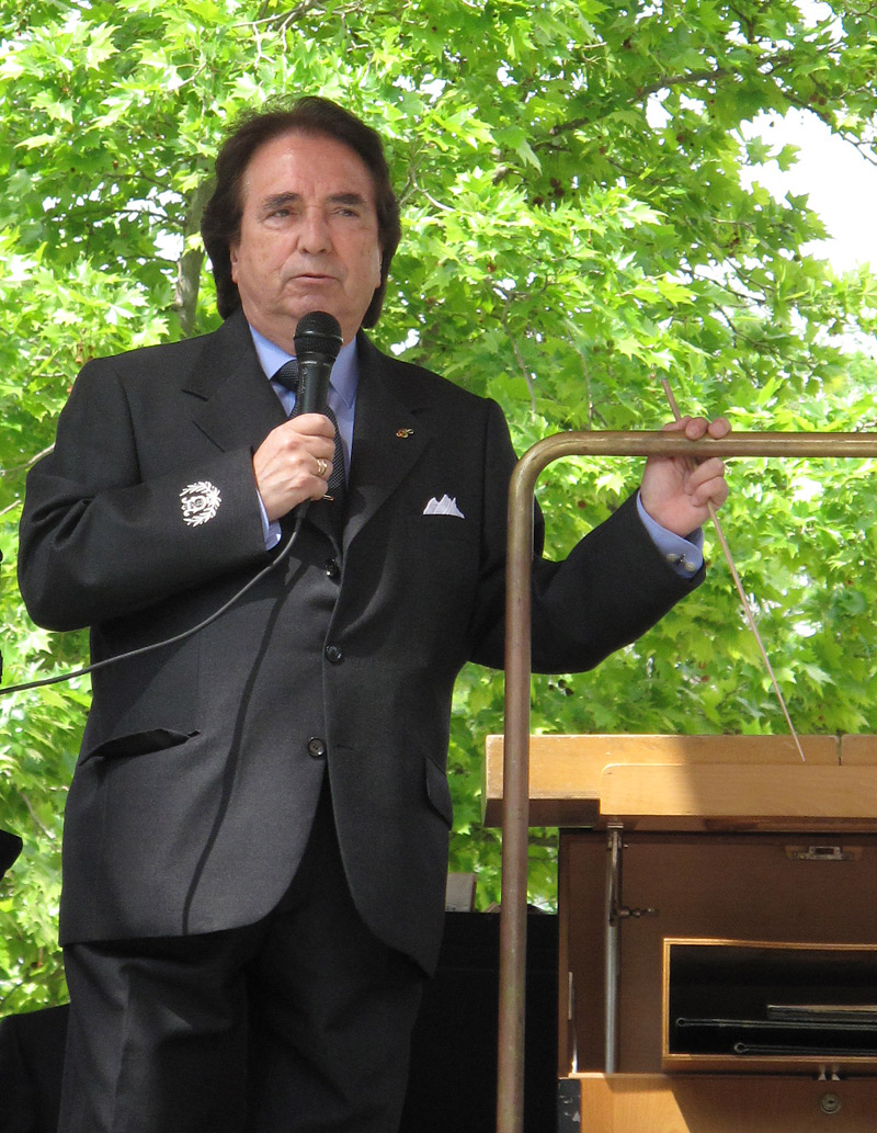 Spanish conductor Enrique García Asensio opens the concert of Banda Sinfonica Municipal Madrid